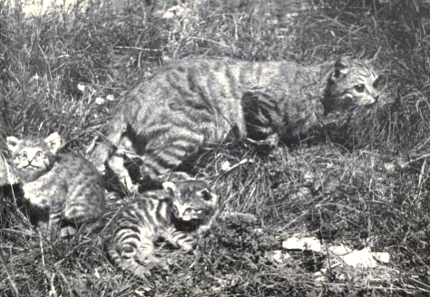 Southern African wildcat with kittens